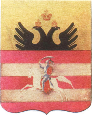 Coat of Arms of Lepiel (1850)